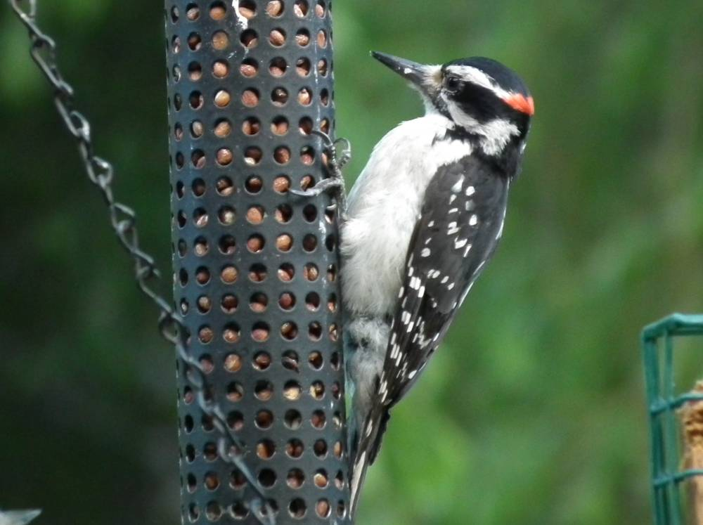 Young Hairy Woodpecker